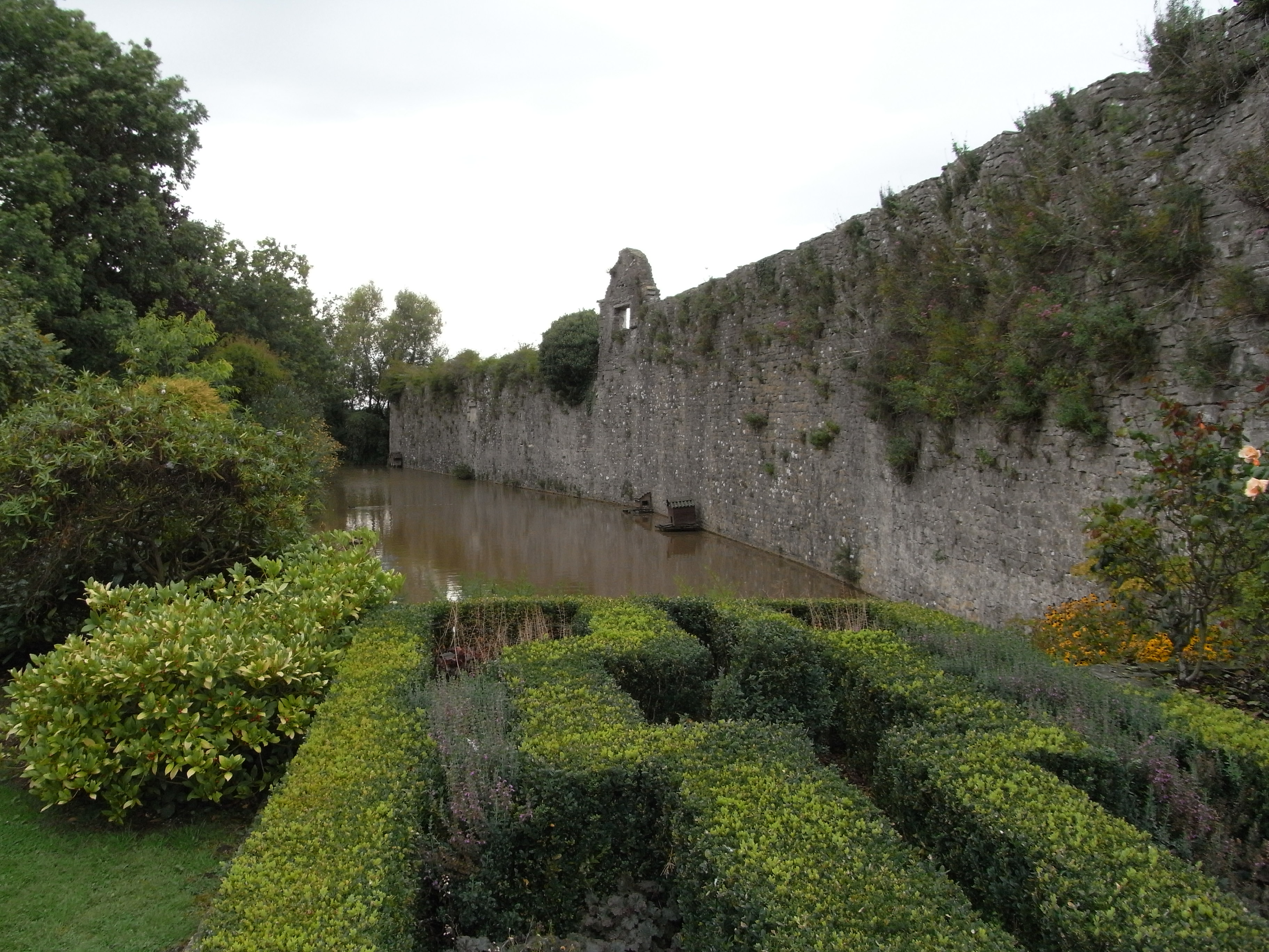 Olveston Court, Glos. View of the mediaeval moat and crenellated wall.